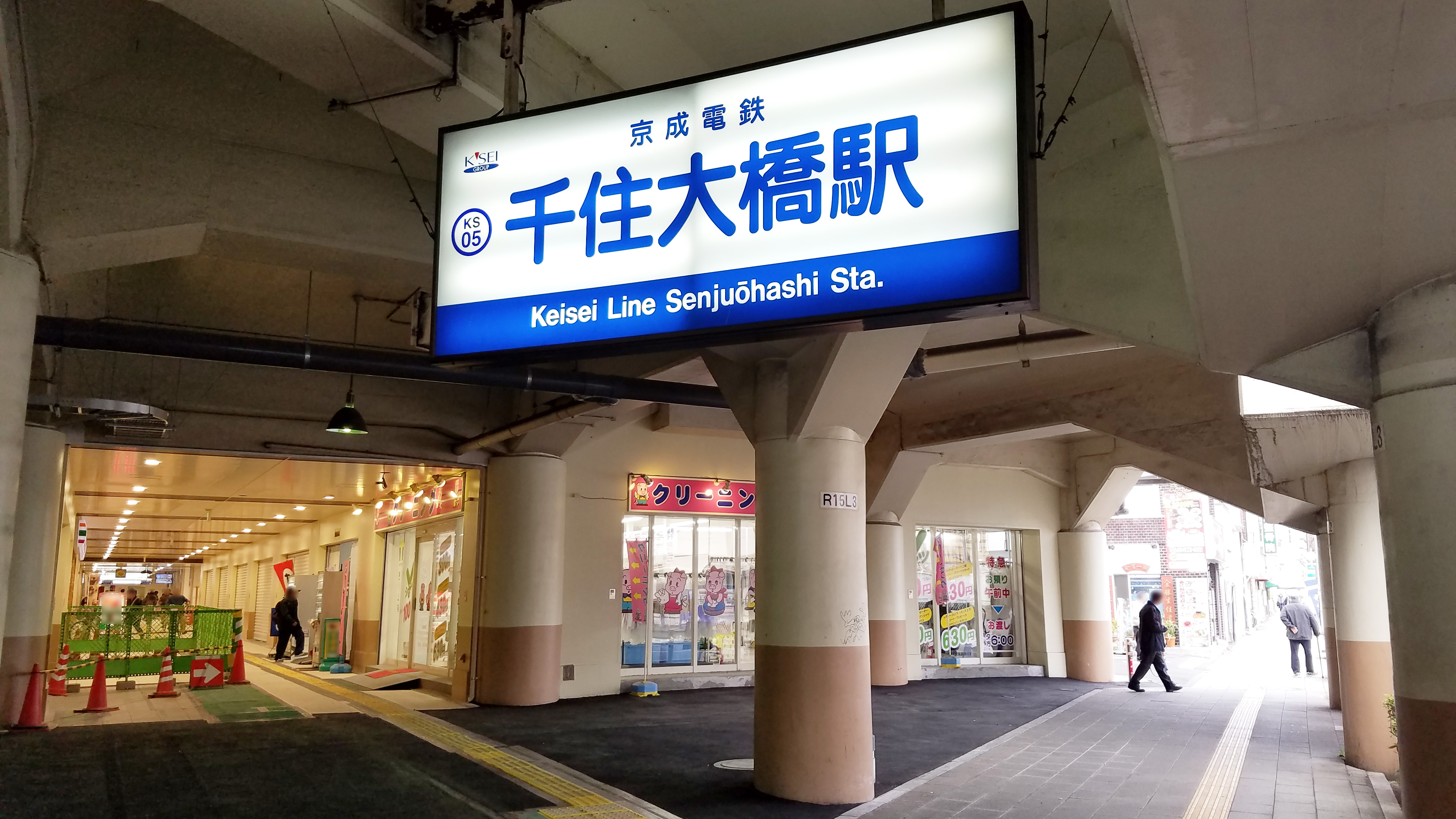 The east-side entrance to Senjuōhashi Station on the Keisei Main Line in Tokyo